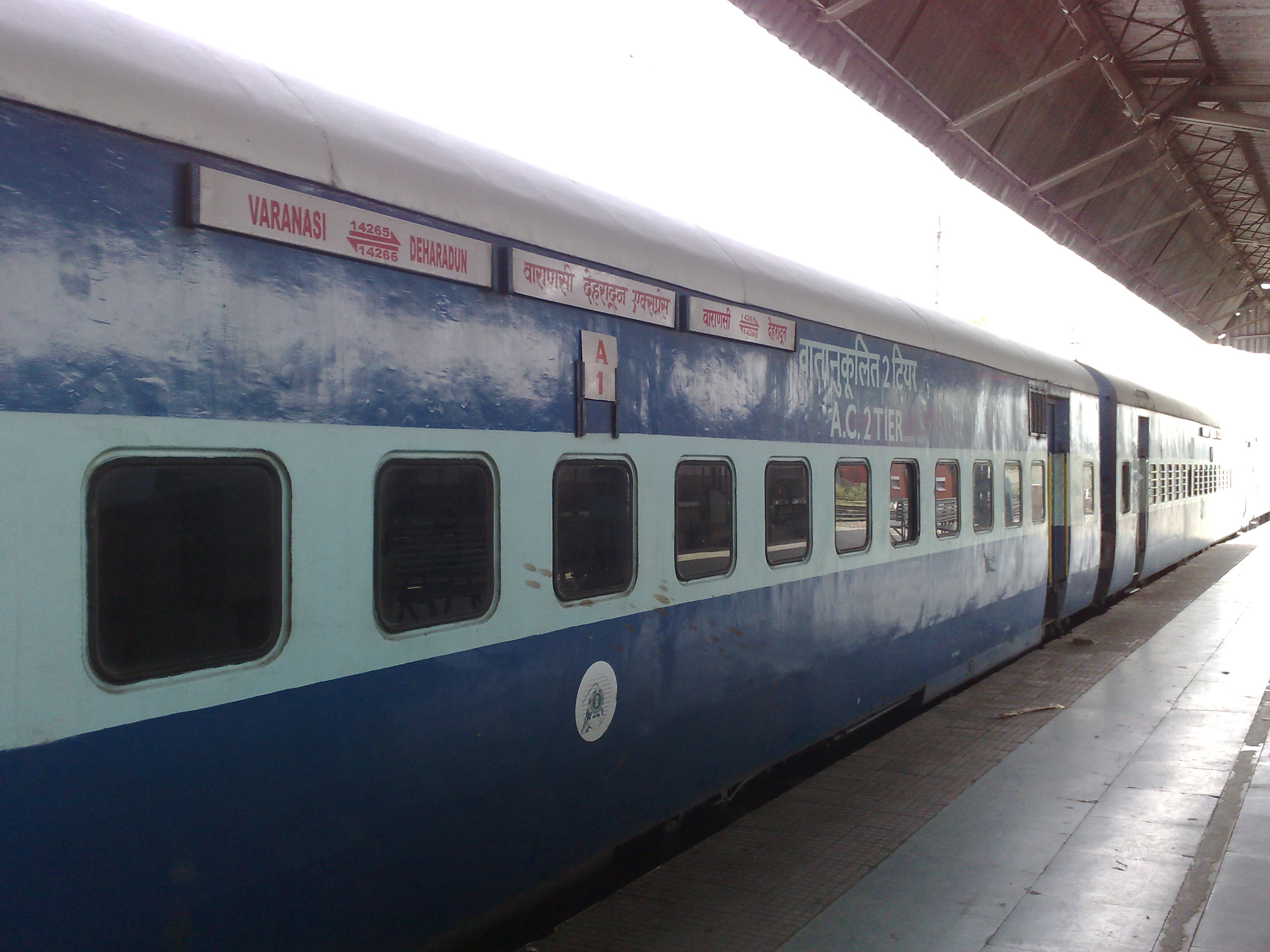 14265 Varanasi Dehradun Express - AC 2 tier coach